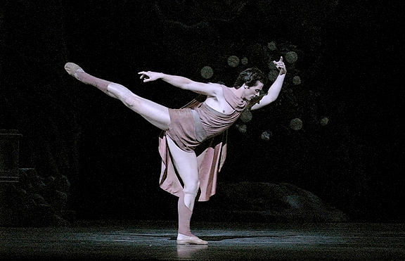 Angel Corella in a 2005 performance as Aminta, from Frederick Ashton's ballet Sylvia. Photo by Gene Schiavone. [1]